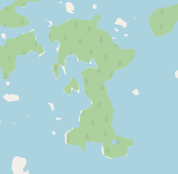 Map of Onas